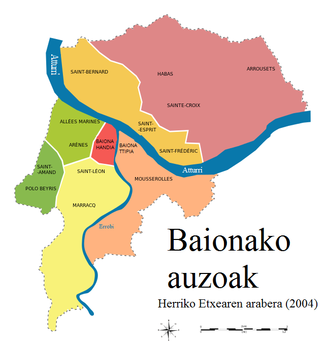 Neighbourghs of Bayonne-Baiona. Labourd, Basque Country.